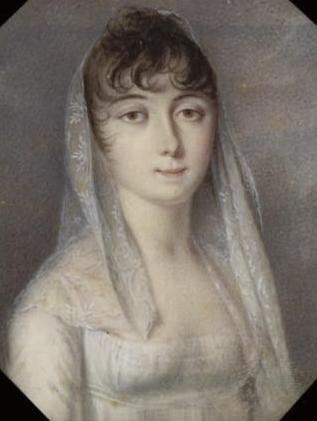 Portrait of a russian lady, dressed in white, 57 x 47 mm